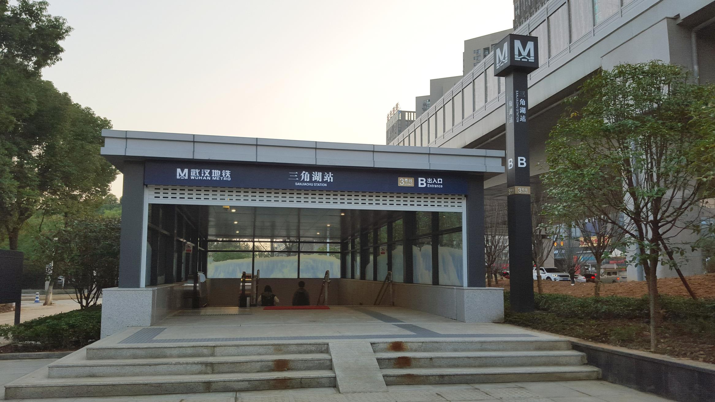 Entrance B of Sanjiaohu Station, Wuhan Metro